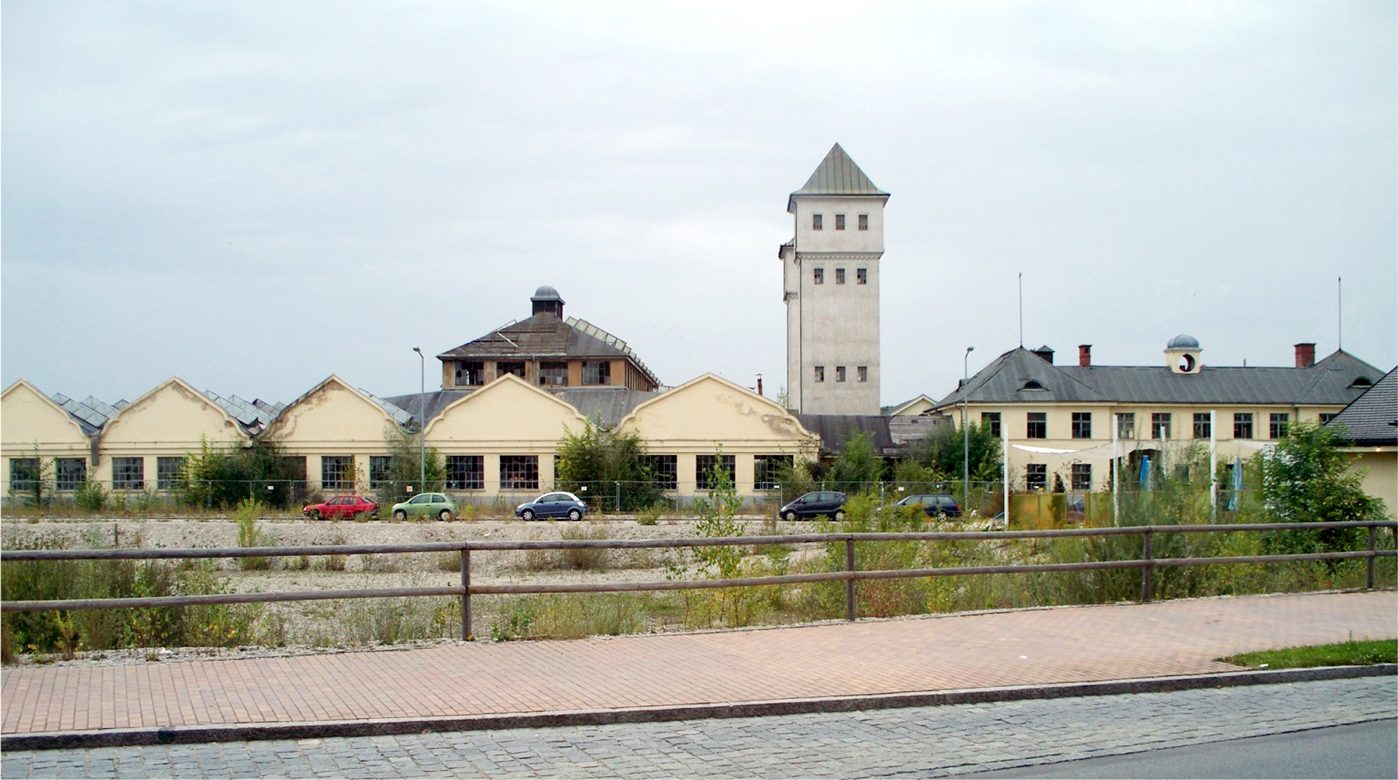 Former Schlüter-factory in Freising.